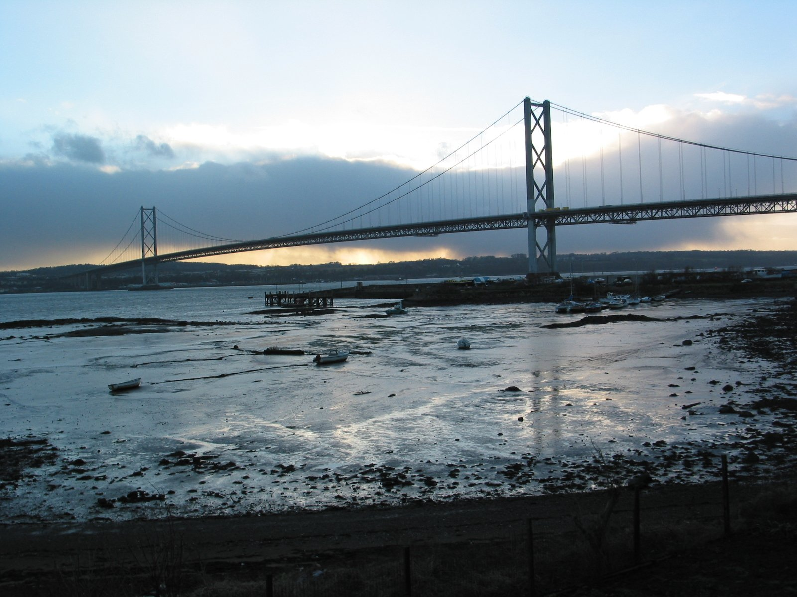 Forth Road Bridge from North Queensferry.